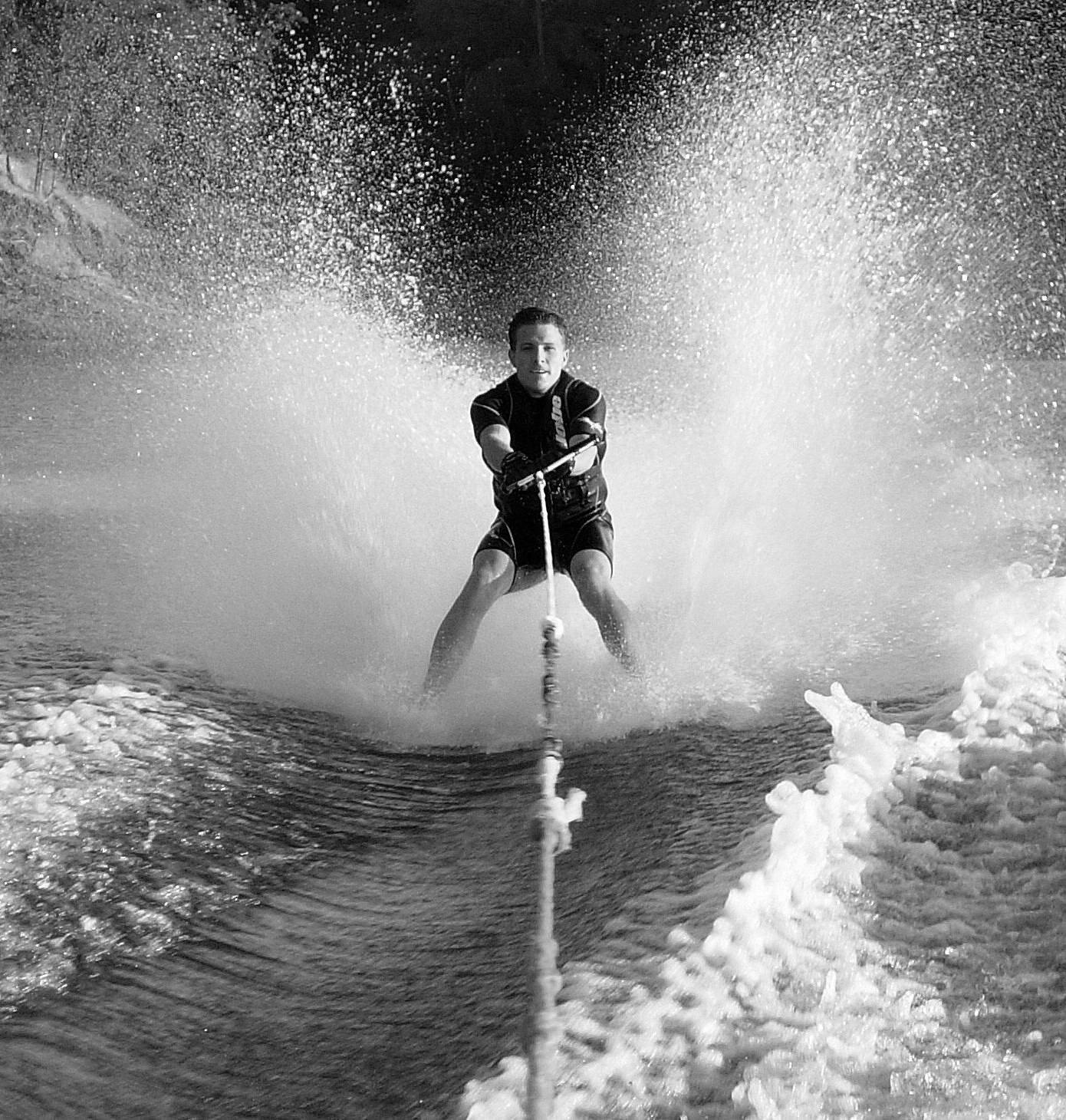 Ryan Jergensen bare footing on Lake Berryessa in 2006.